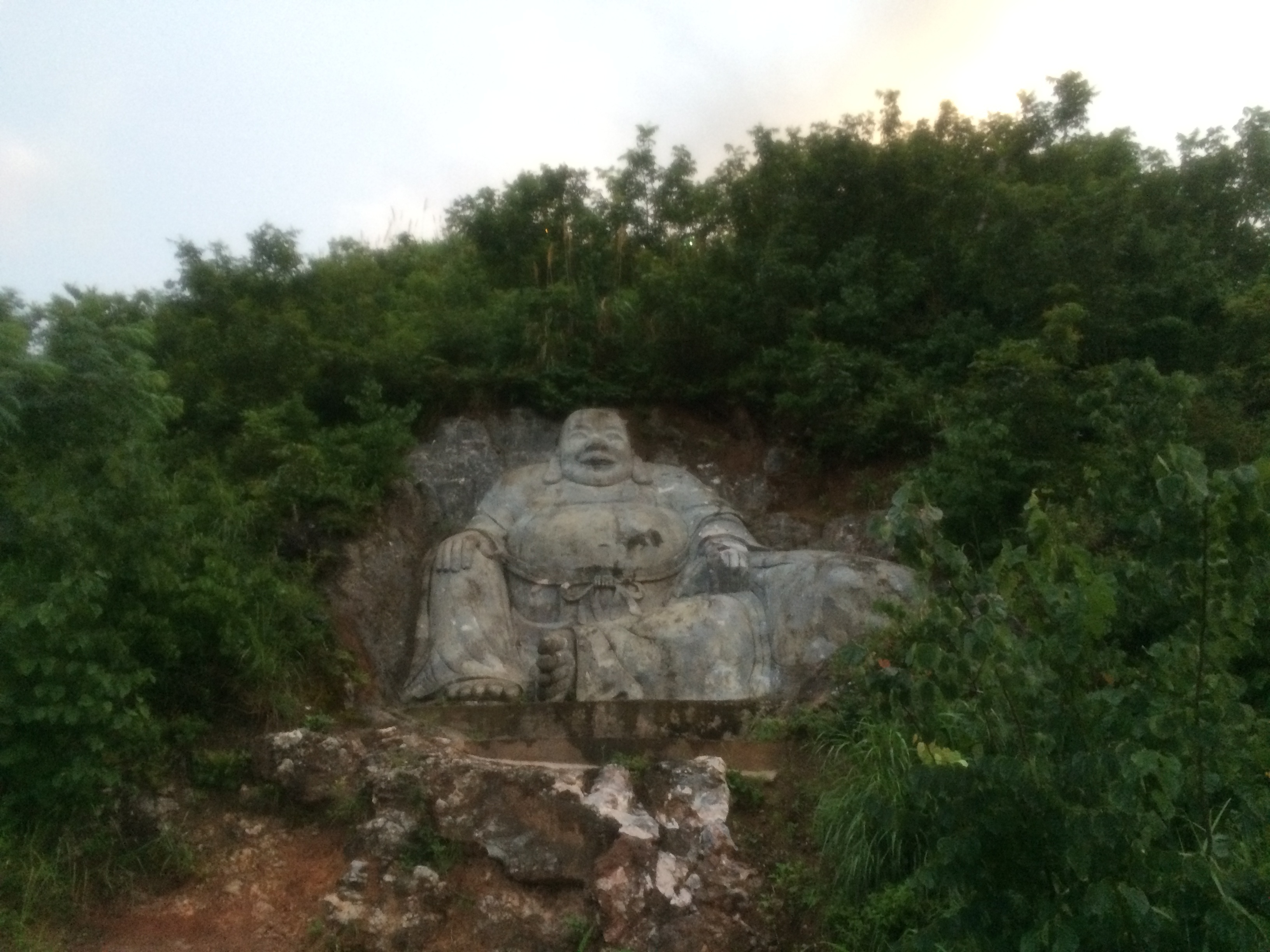 Buddha statue in Lienchow, Kwangtung 粵語: 廣東連州巾峰山笑佛